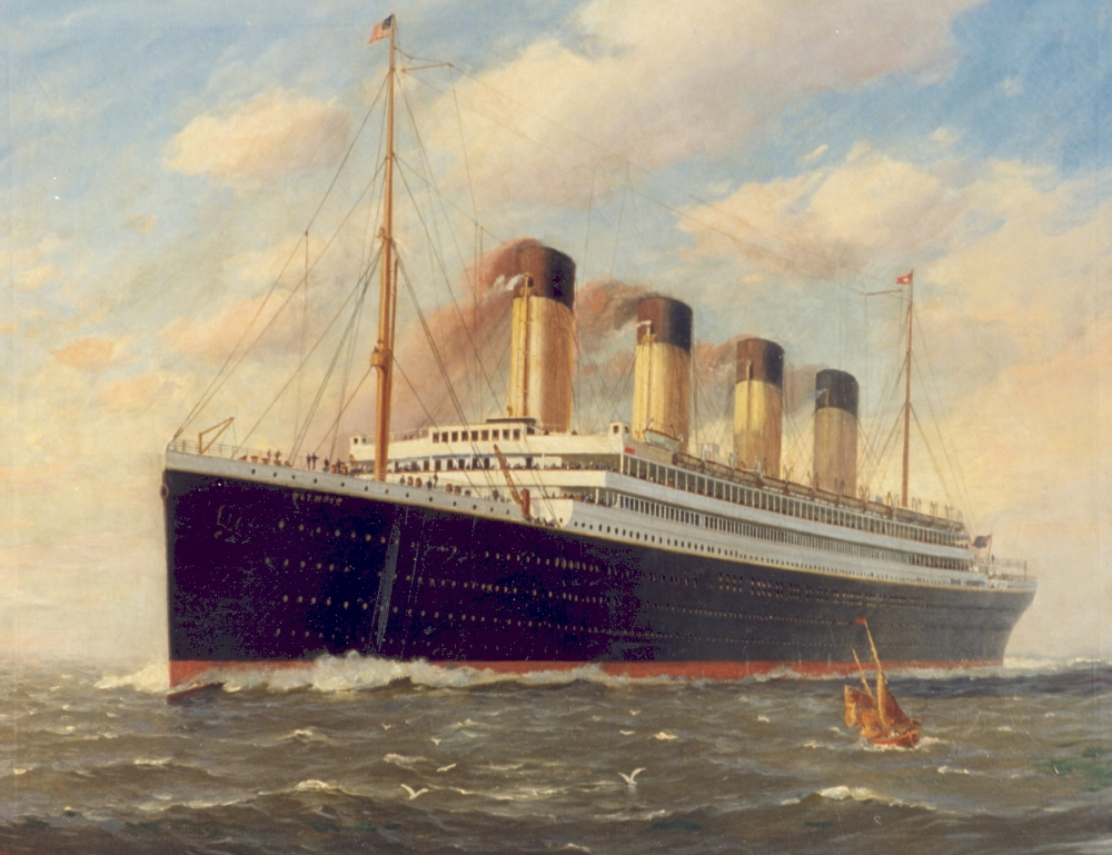 Painting of Liner RMS Olympic by Fred Pansing